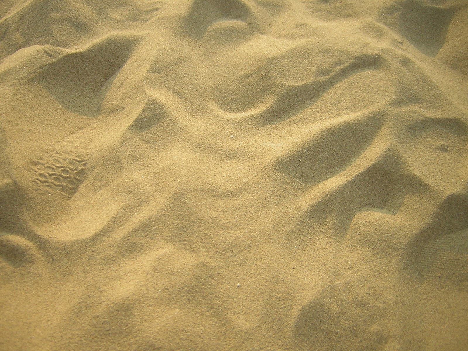 Golden sands of Fulong Beach.中文（台灣）: 福隆海水浴場的金色沙灘。